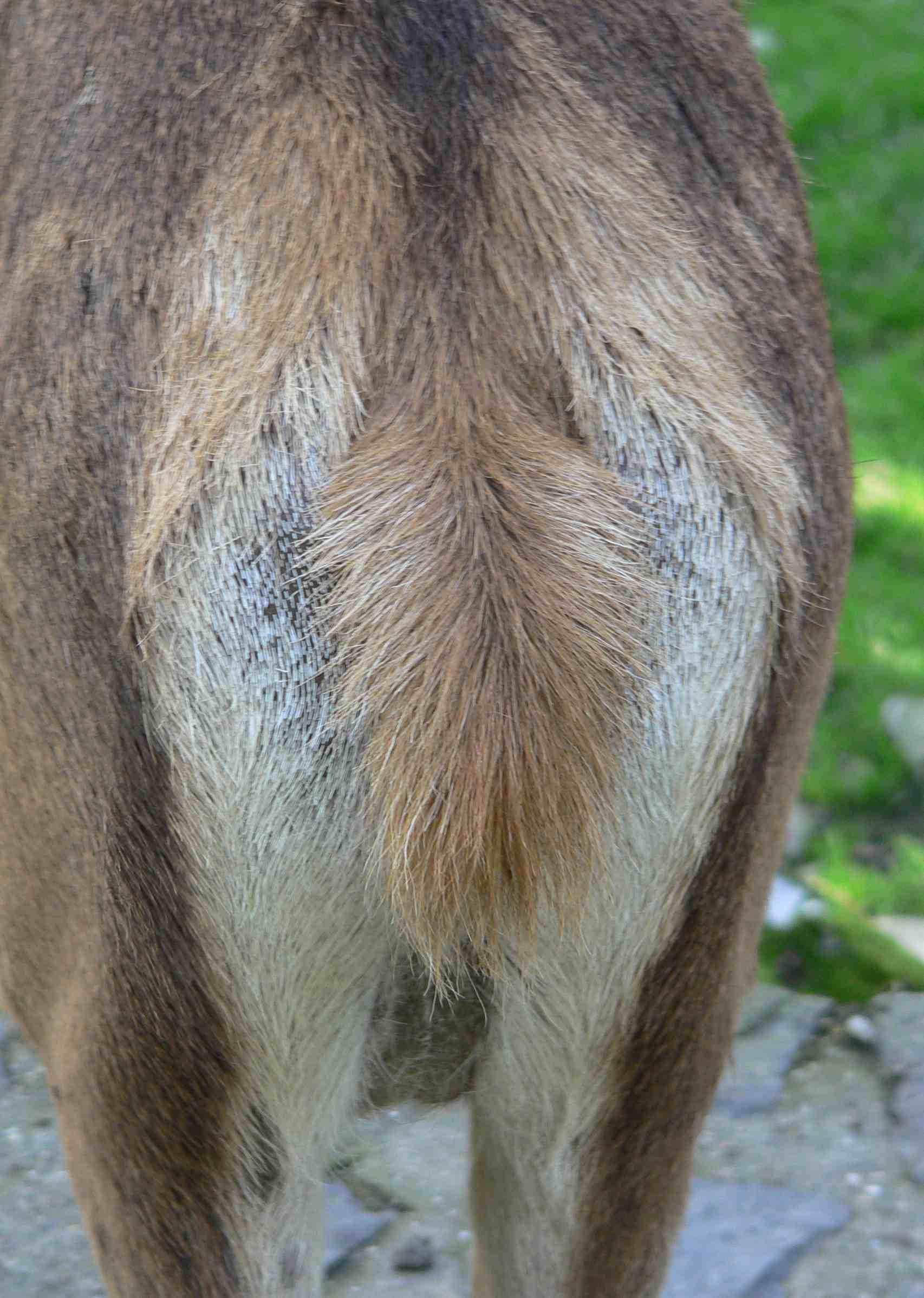 Cervus elaphus, behind of female